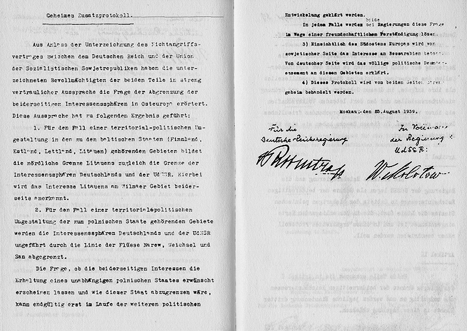 The Molotov–Ribbentrop Pact between Nazi Germany and the Soviet Union signed in Moscow on 23 August 1939